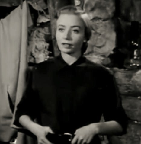 Maria Palmer in Days of Glory - trailer (cropped screenshot)